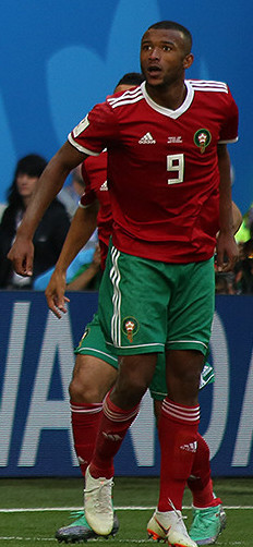 Iran-Morocco match, 2018 FIFA World Cup